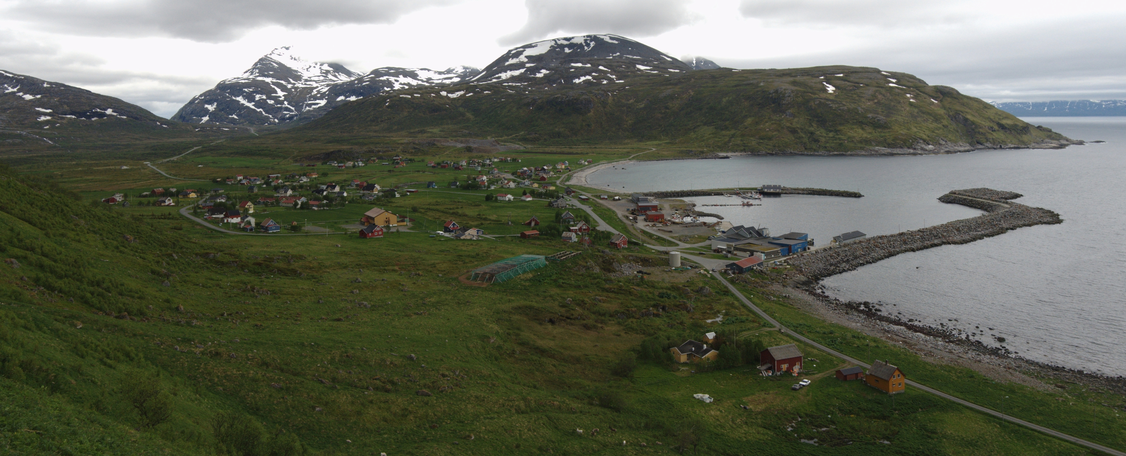 Panorama of Årviksand at Arnøya in Skjervøy, Troms, Norway